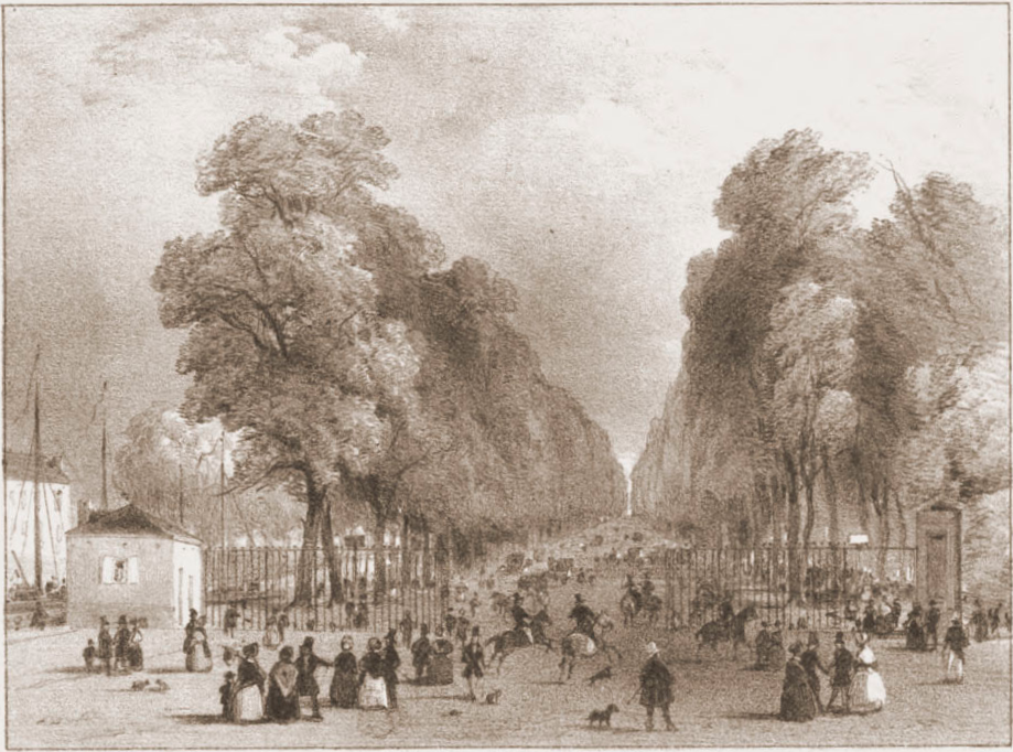 Groendreef/Allée verte, Brussels. Drawing by François Stroobant (Monuments et vues de Bruxelles, 1839)